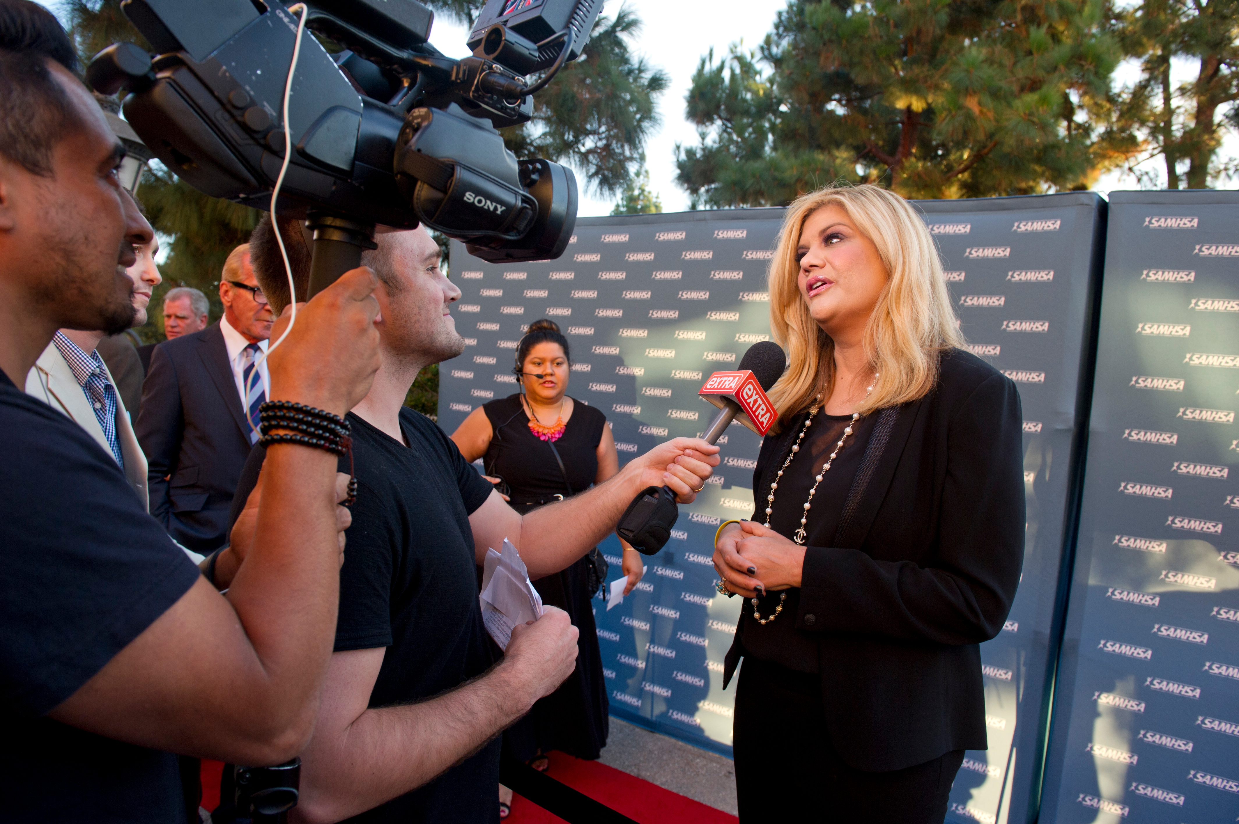 SAMHSA Special Recognition Award winner Kristen Johnston speaks with the media at the 2014 Voice Awards event held on August 13 at Royce Hall on the campus of UCLA.